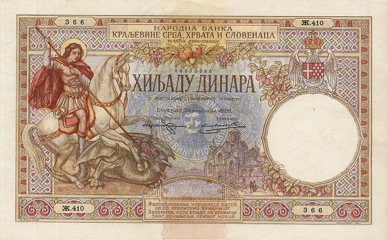 Obverse of the 1000 Yugoslav dinars note (1920 version of 1918 dinar)